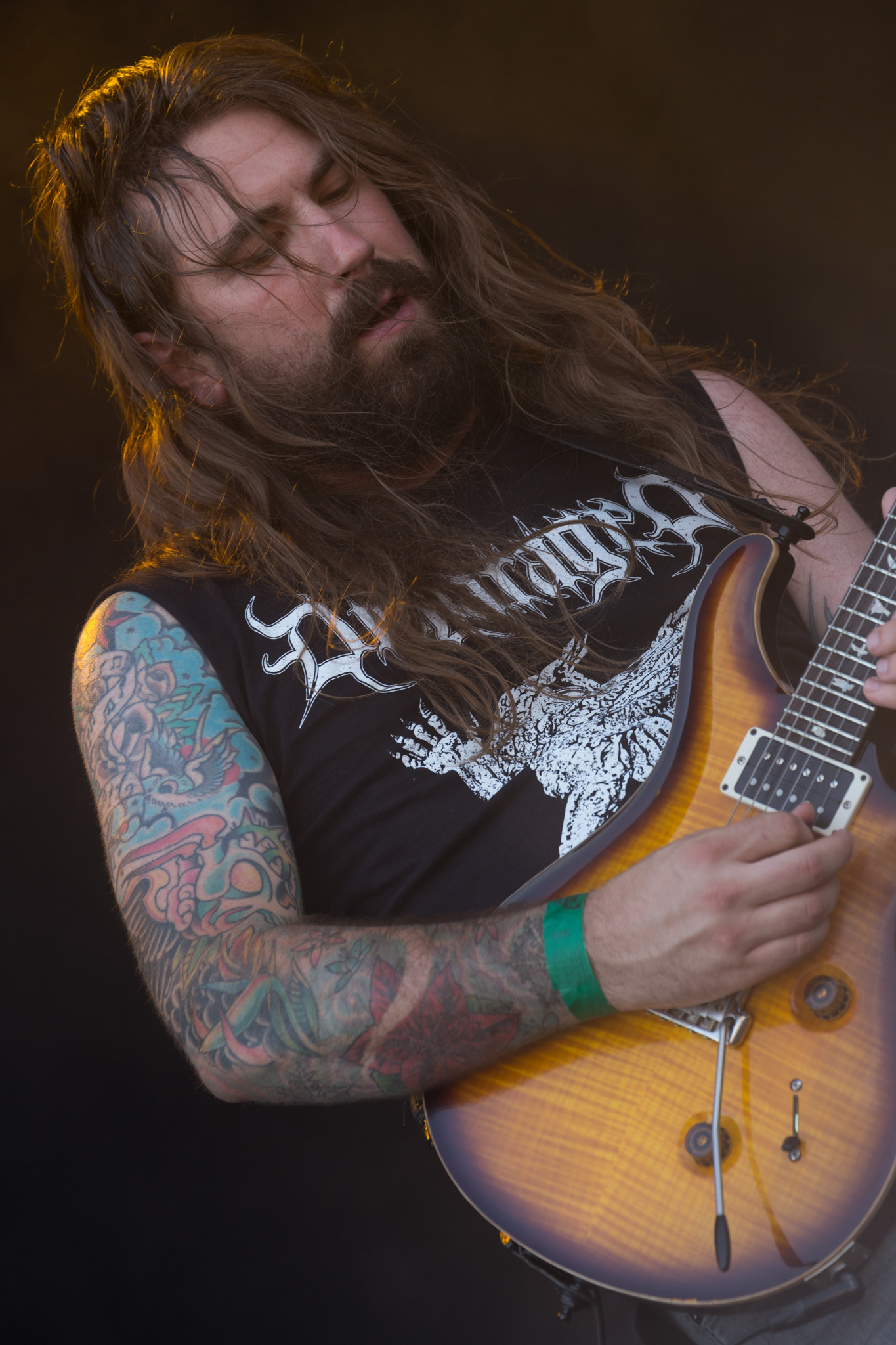 The Black Dahlia Murder performing at the With Full Force Festival, July 2014